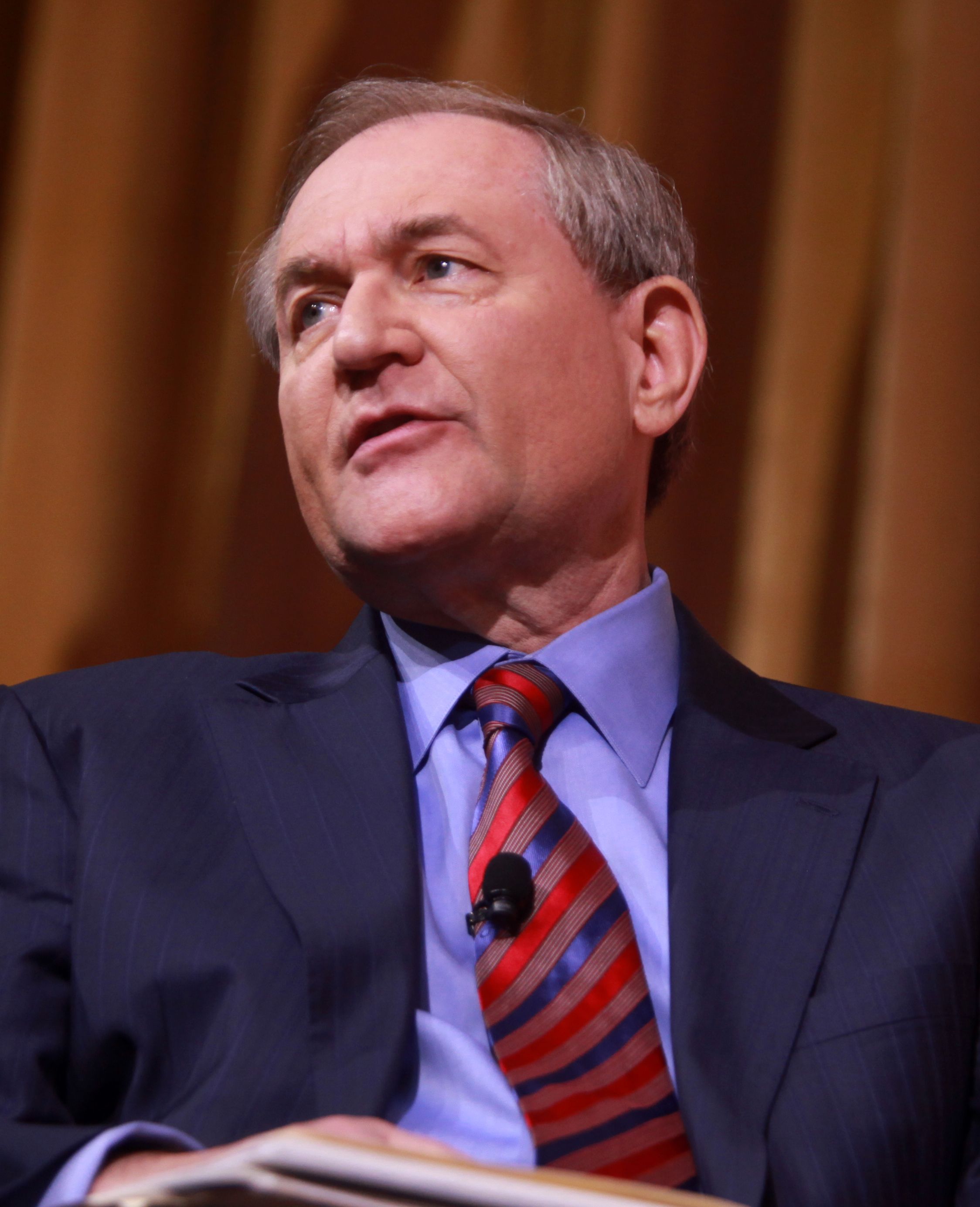 Jim Gilmore speaking at CPAC 2014 in Washington, DC.